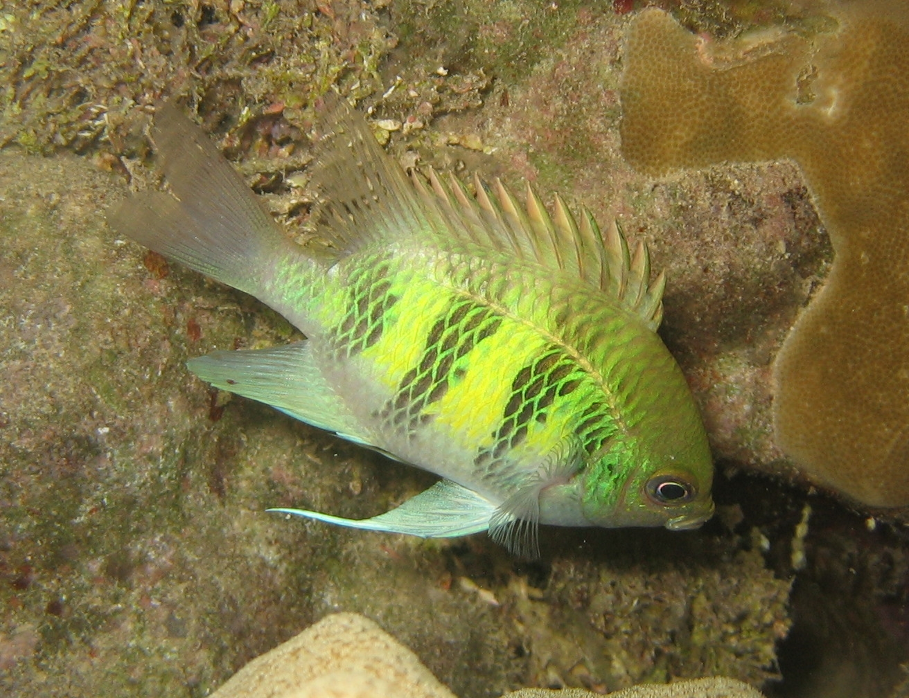 Staghorn damselfish (Amblyglyphidodon curacao en fr ) Image ID: reef0585, NOAA's Coral Kingdom Collection Location: Chuuk, Federated States of Micronesia